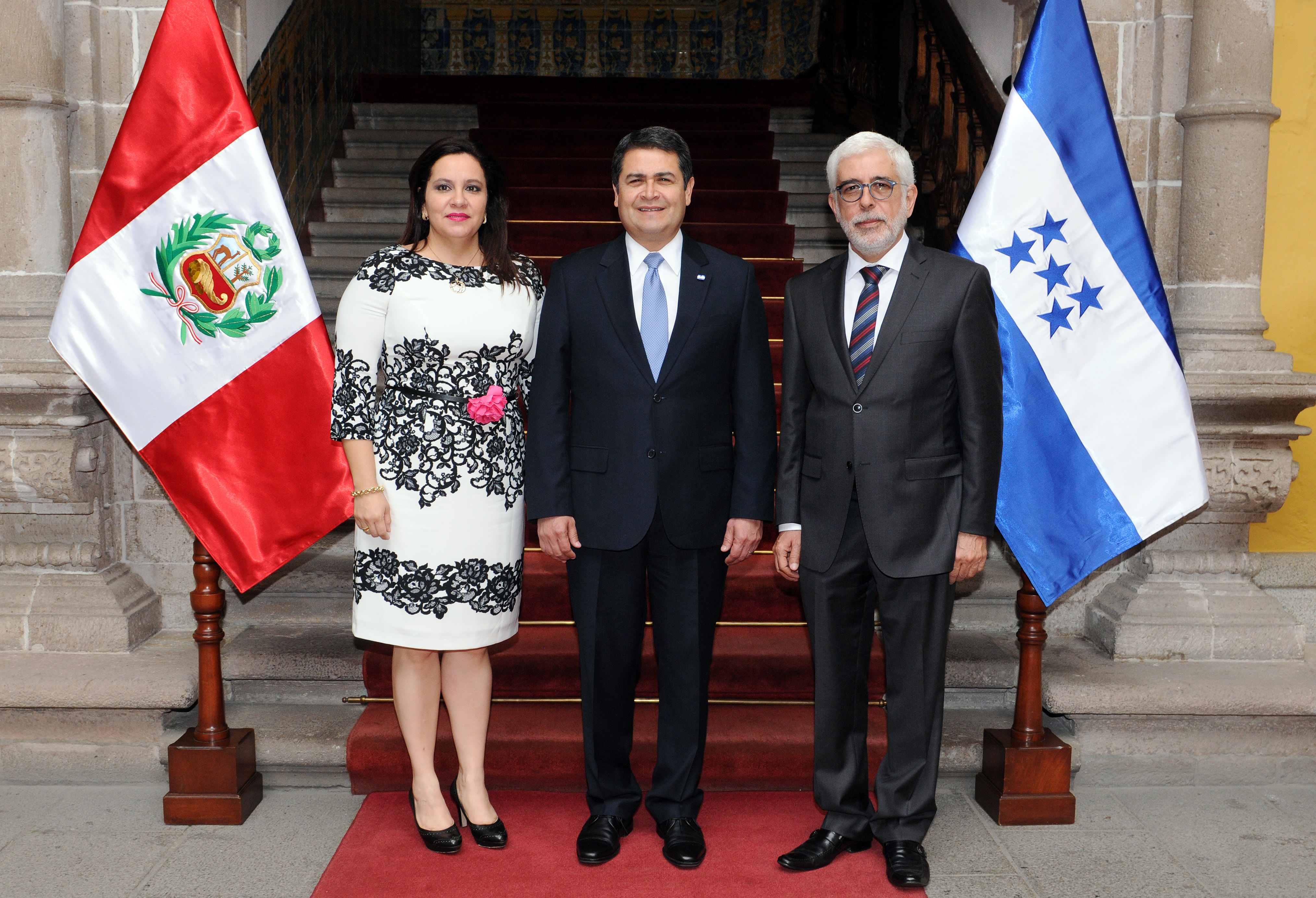 Juan Orlando Hernández (center), President of Honduras, his spouse Ana García de Hernández and Eduardo Martinetti, Vice-Minister of Foreign Affairs of Peru at the Torre Togle Palace in Lima.